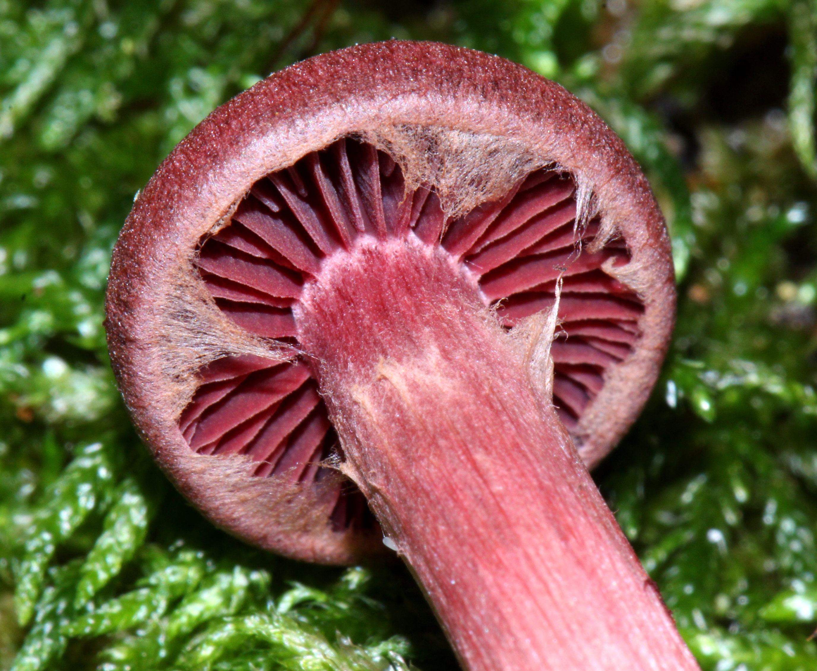 The underside of a pileus (cap) of the mushroom Tubaria punicea (A.H. Sm. & Hesler) Ammirati, Matheny & P.-A. Moreau. Specimen photographed in Henry Cowell Redwoods State Park, Felton, CA, USA.